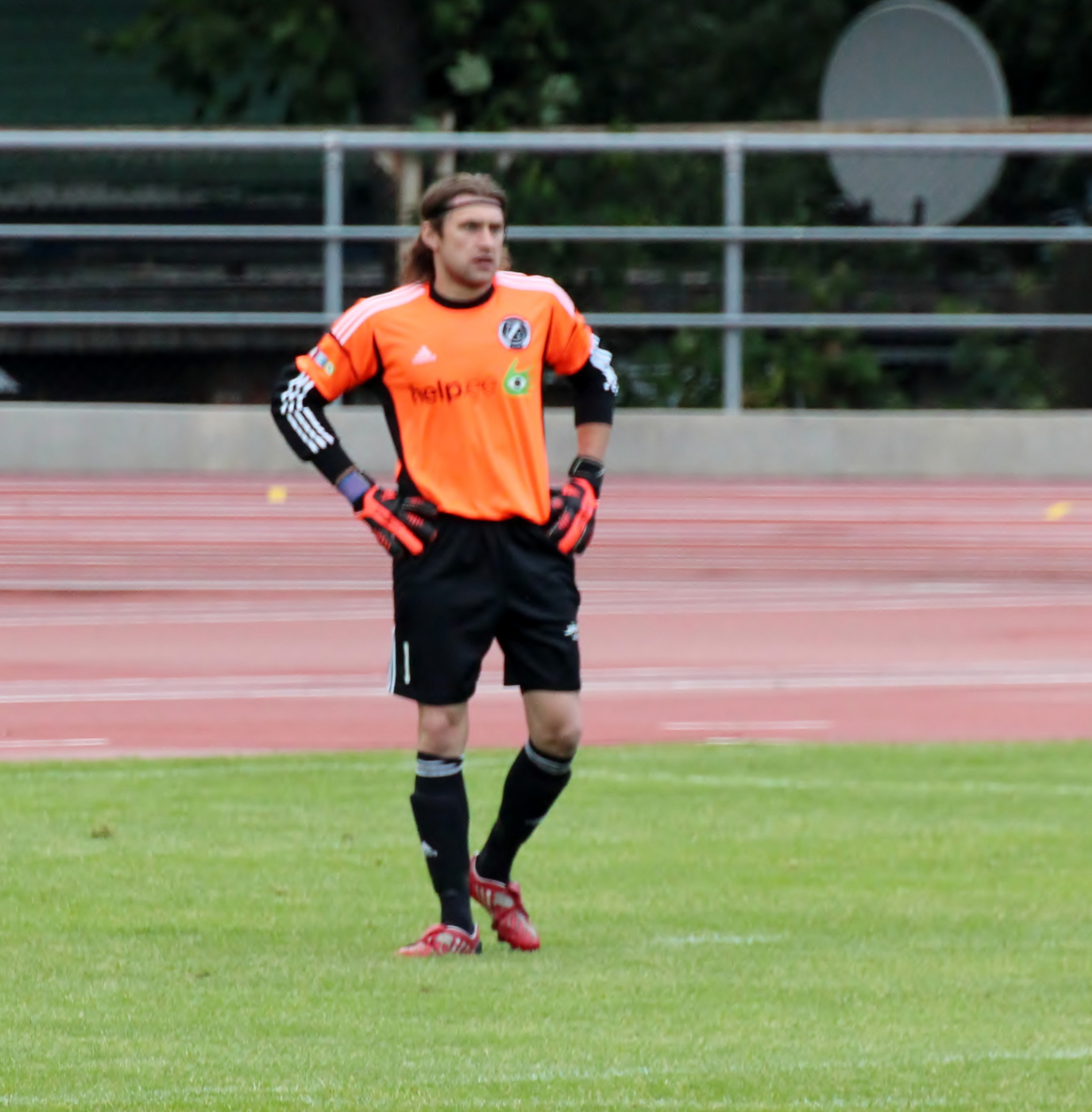 Vitali Teleš playing football against Levadia for Nõmme Kalju